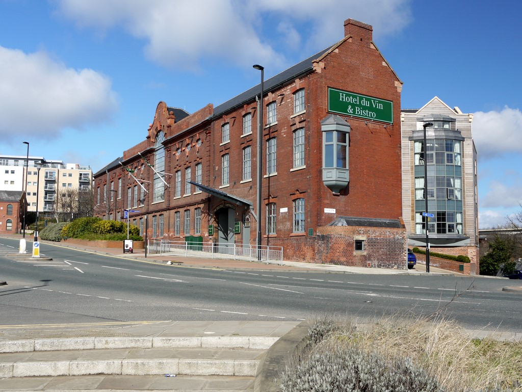 Hotel du Vin, City Road Converted in 2007-8 from the Tyne-Tees Steam Shipping Company offices of 1908 (commonly known as Allan House). Now Hotel du Vin, hotel, restaurant and bistro. A modern wing, visible to the right, was added to the rear, off Ouse Street. Newcastle's Victoria Tunnel runs beneath the hotel building. There is an entrance behind from Ouse Street